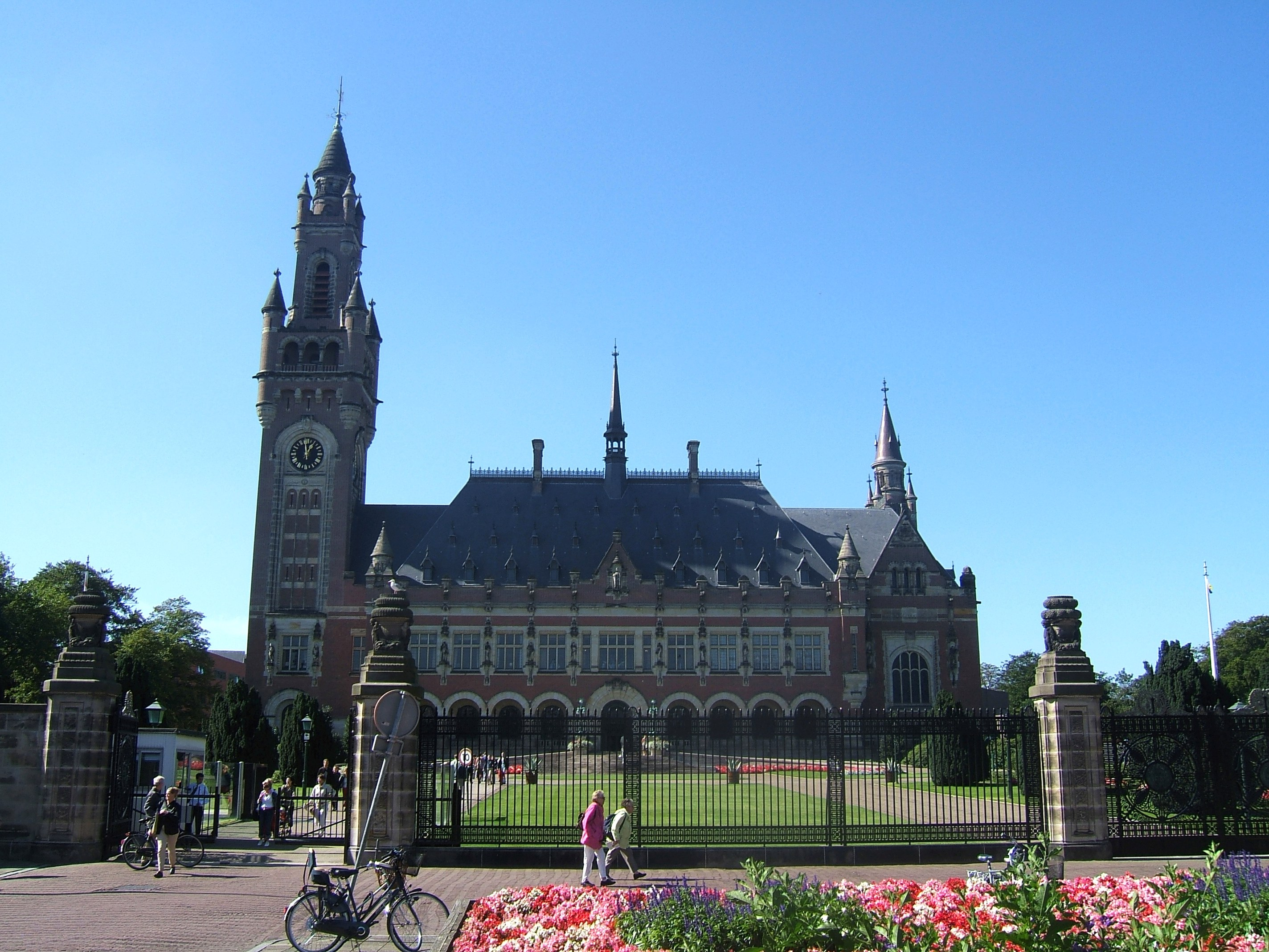 The Peace Palace in Den Haag.